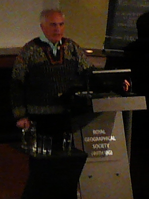 Terence Stamp